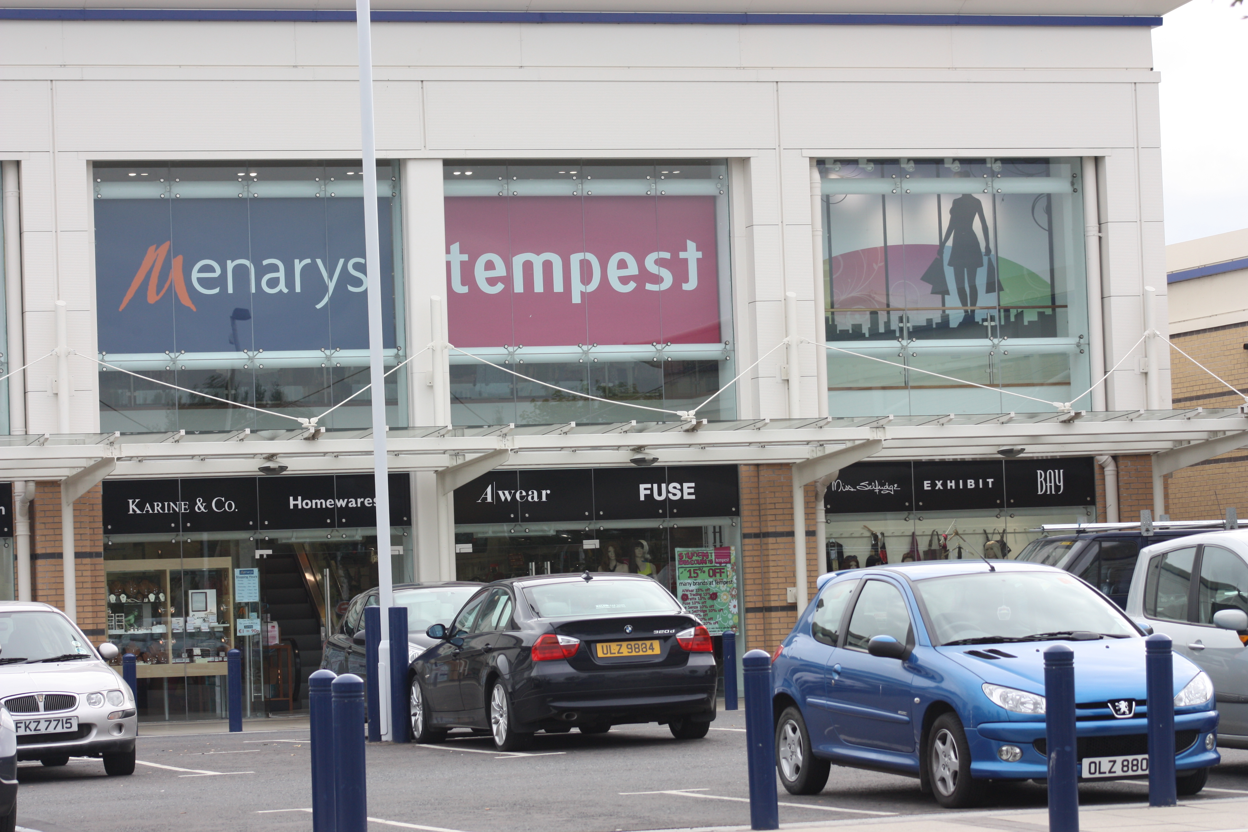 Menarys store, Rushmere Shopping Centre, Central Way, Craigavon, County Armagh, Northern Ireland, August 2009